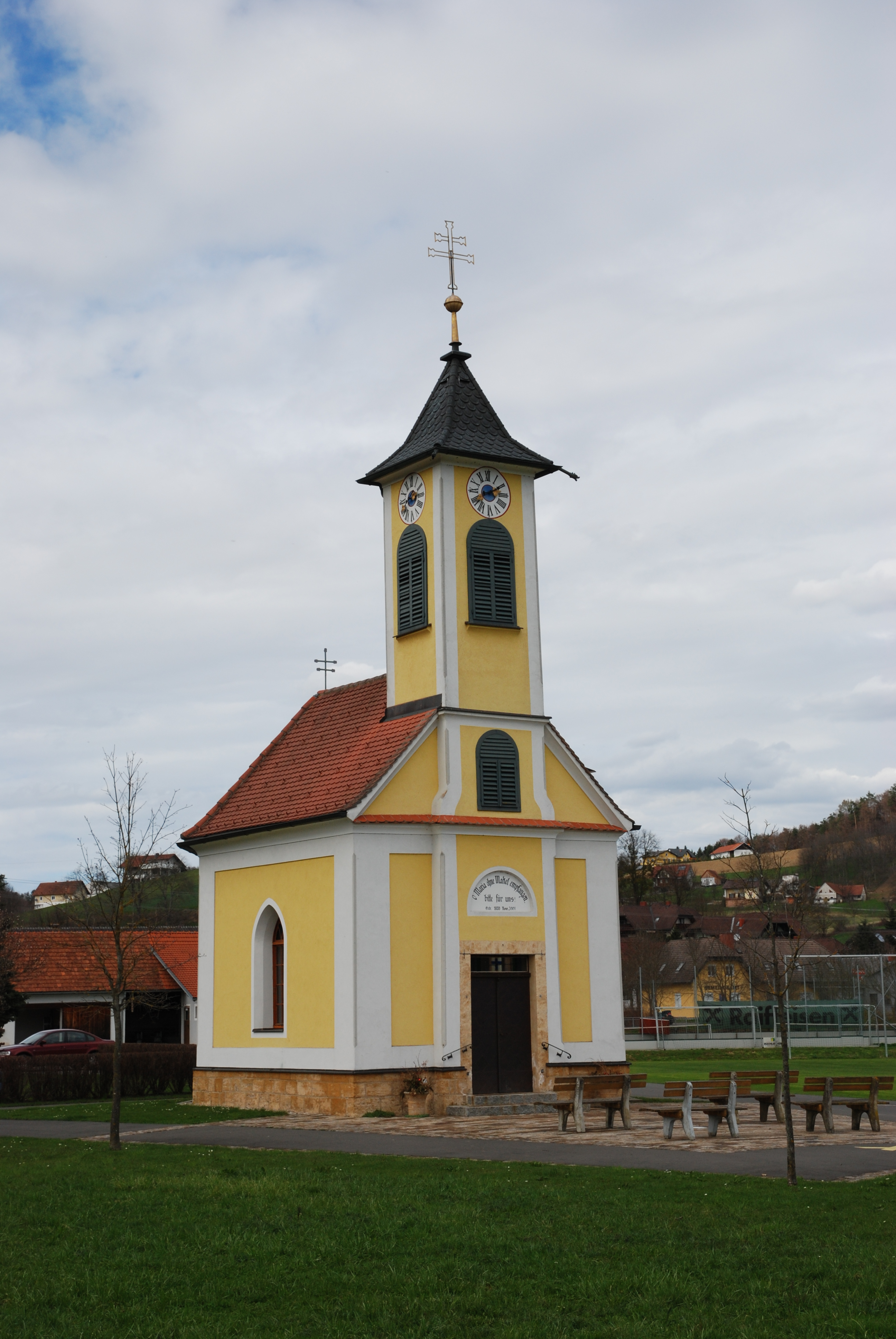 Kapelle Kohlberg in the municipality of Gnas, Styria.